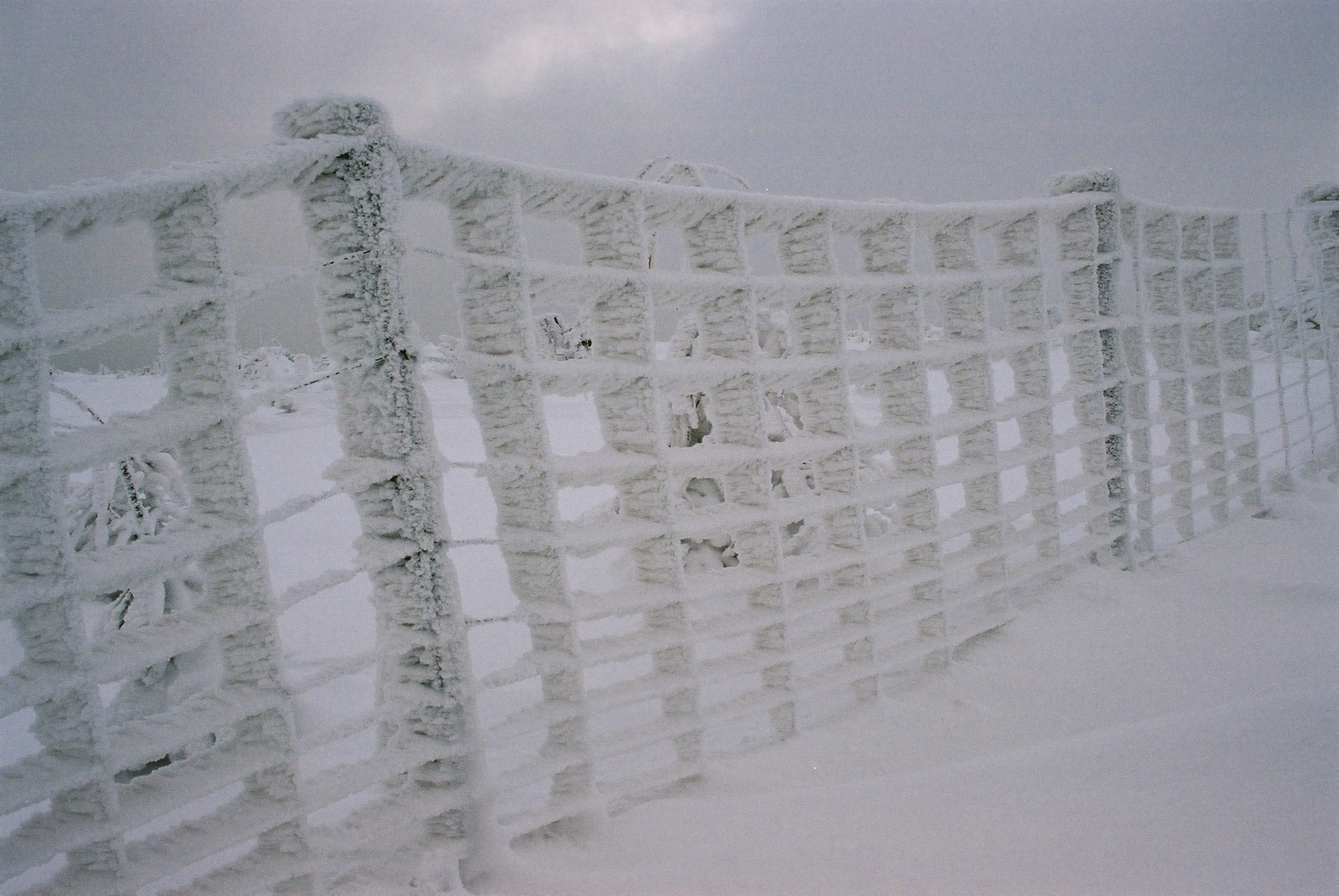 Hard rime on a fence made of 2 mm steel wire; the diameter of the ice residue is about 15 cm